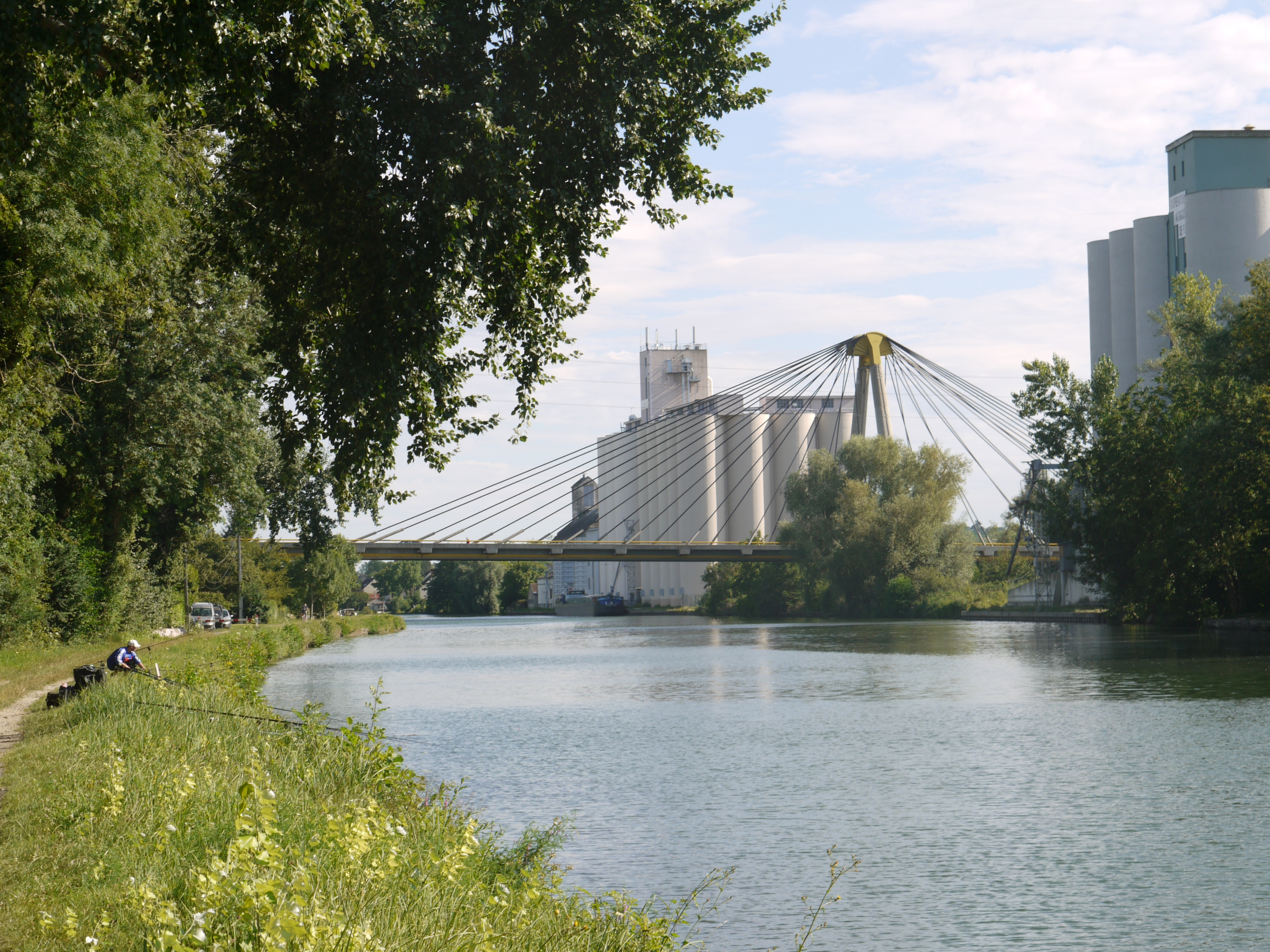 The river Loing in the city of Nemours, Ile de France, France